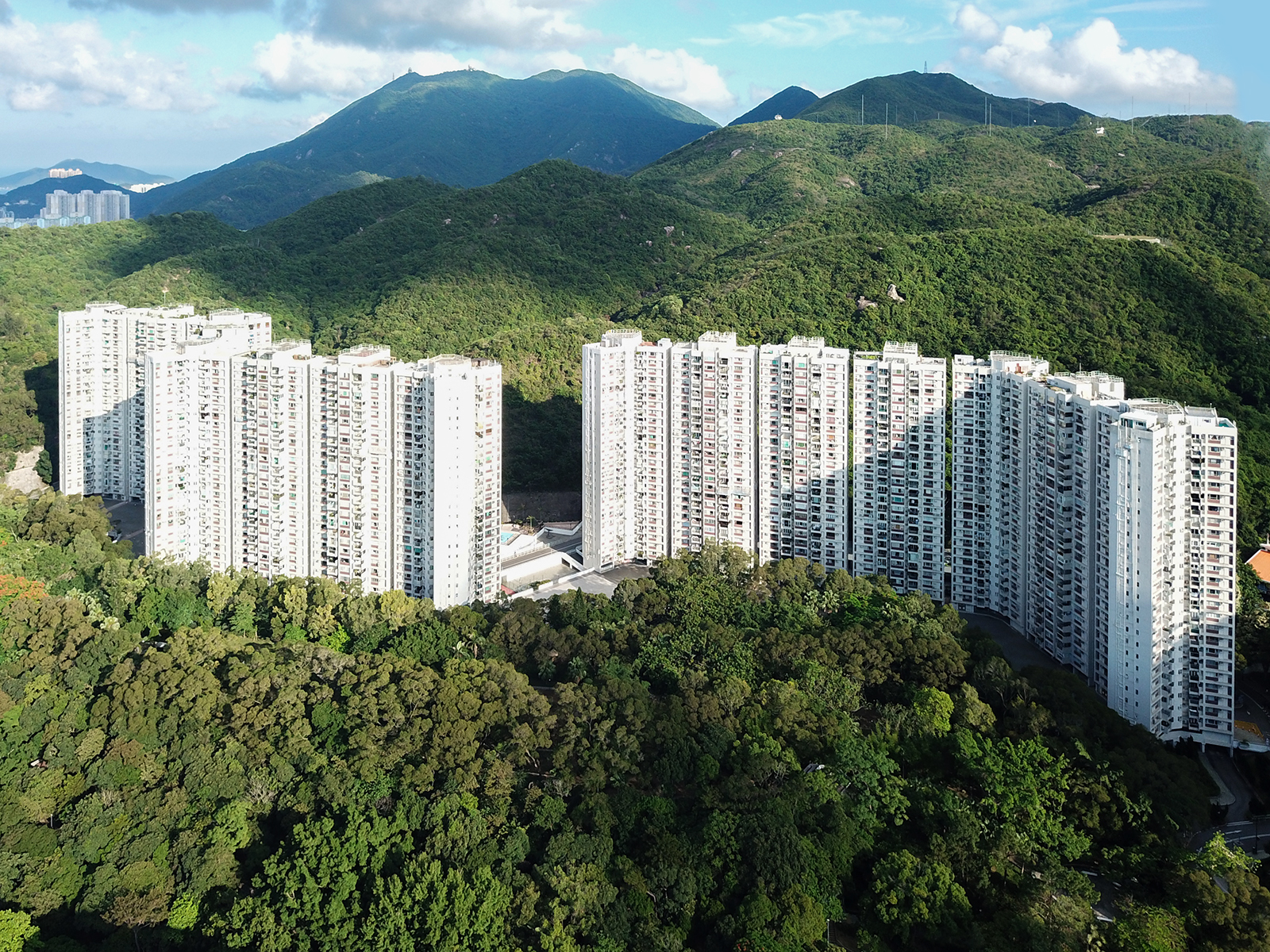 Chinese International School